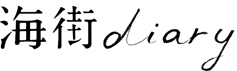 Our Little Sister movie logo.